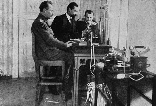 Secretary of the Bolshevik delegation at Brest-Litovsk, Lev Karakhan, at the telegraph that was used to communicate with Lenin in St. Petersburg.